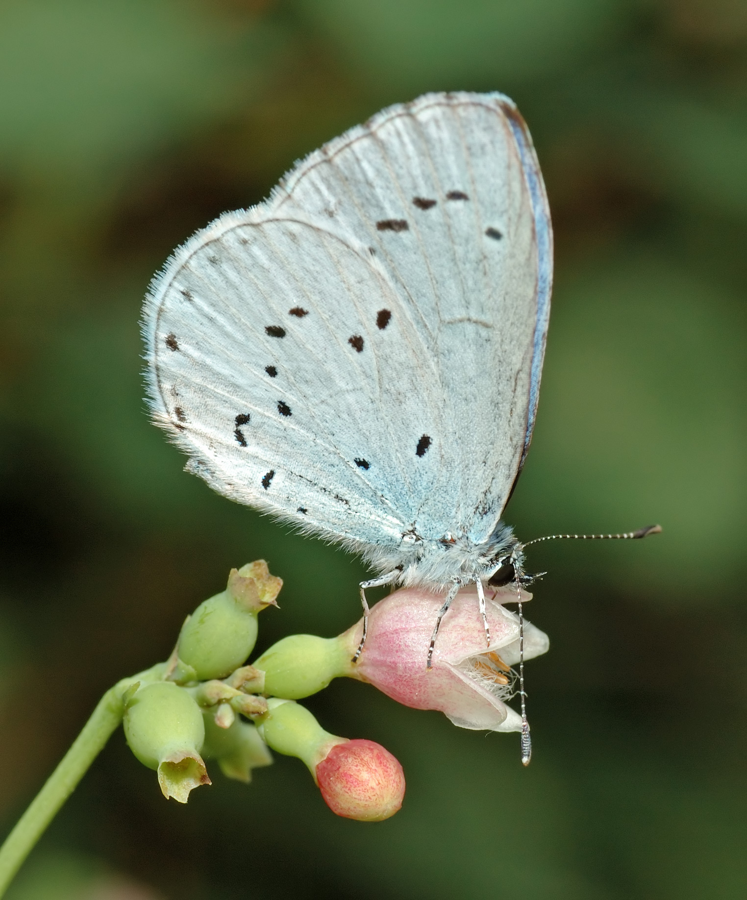 This image shows a Holly Blue butterfly (Celastrina argiolus). Thanks to Olei for identifying these animals.